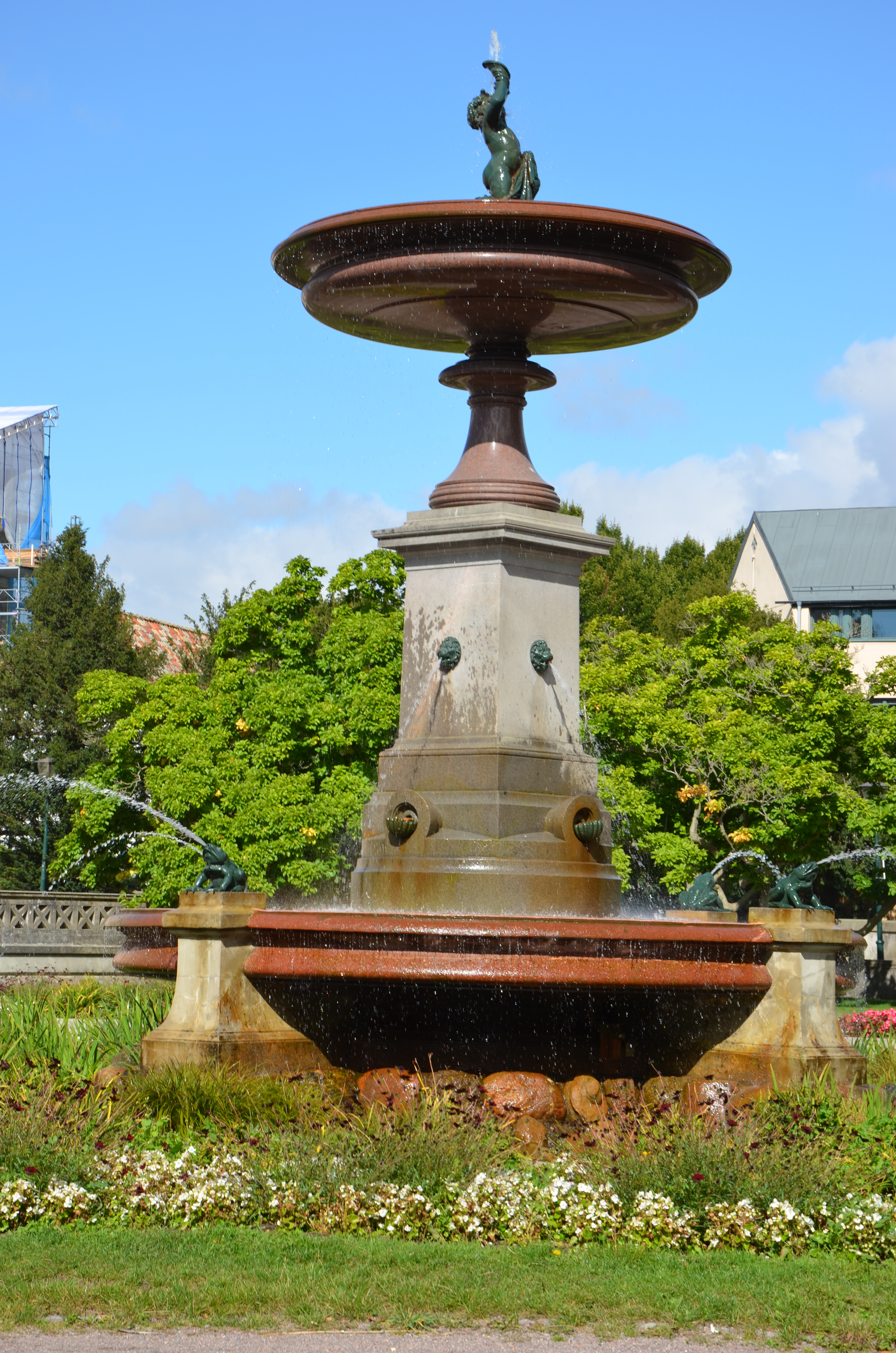 Fontänen på Universitetsplatsen Lund, granit, 1887-88, formgiven av Helgo Zéttervall, huggen i Graversfors